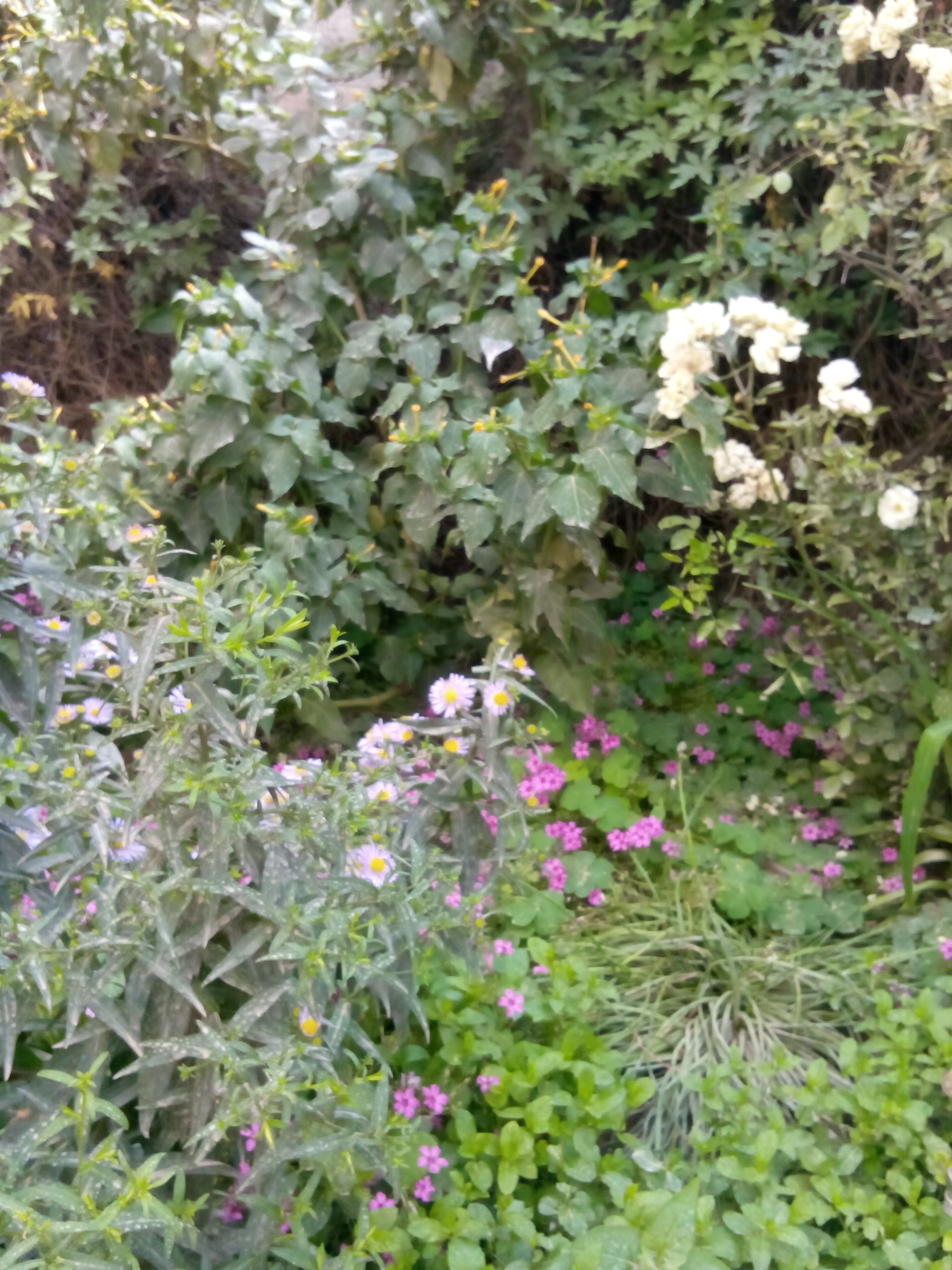 Flowers in the Garden